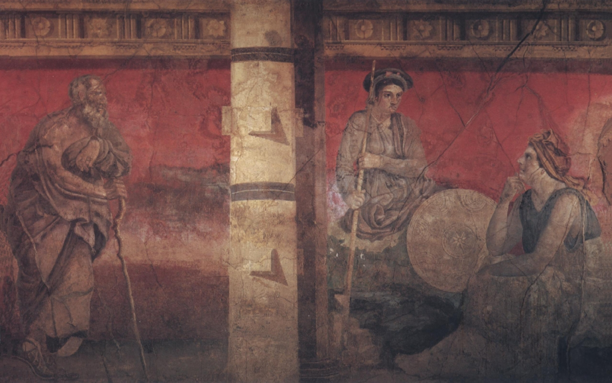 Painting on left side of cubiculum H, Villa of Boscoreale, now at Museo Archeologico Nazionale (Naples), exhibited at Metropolitan Museum of Art